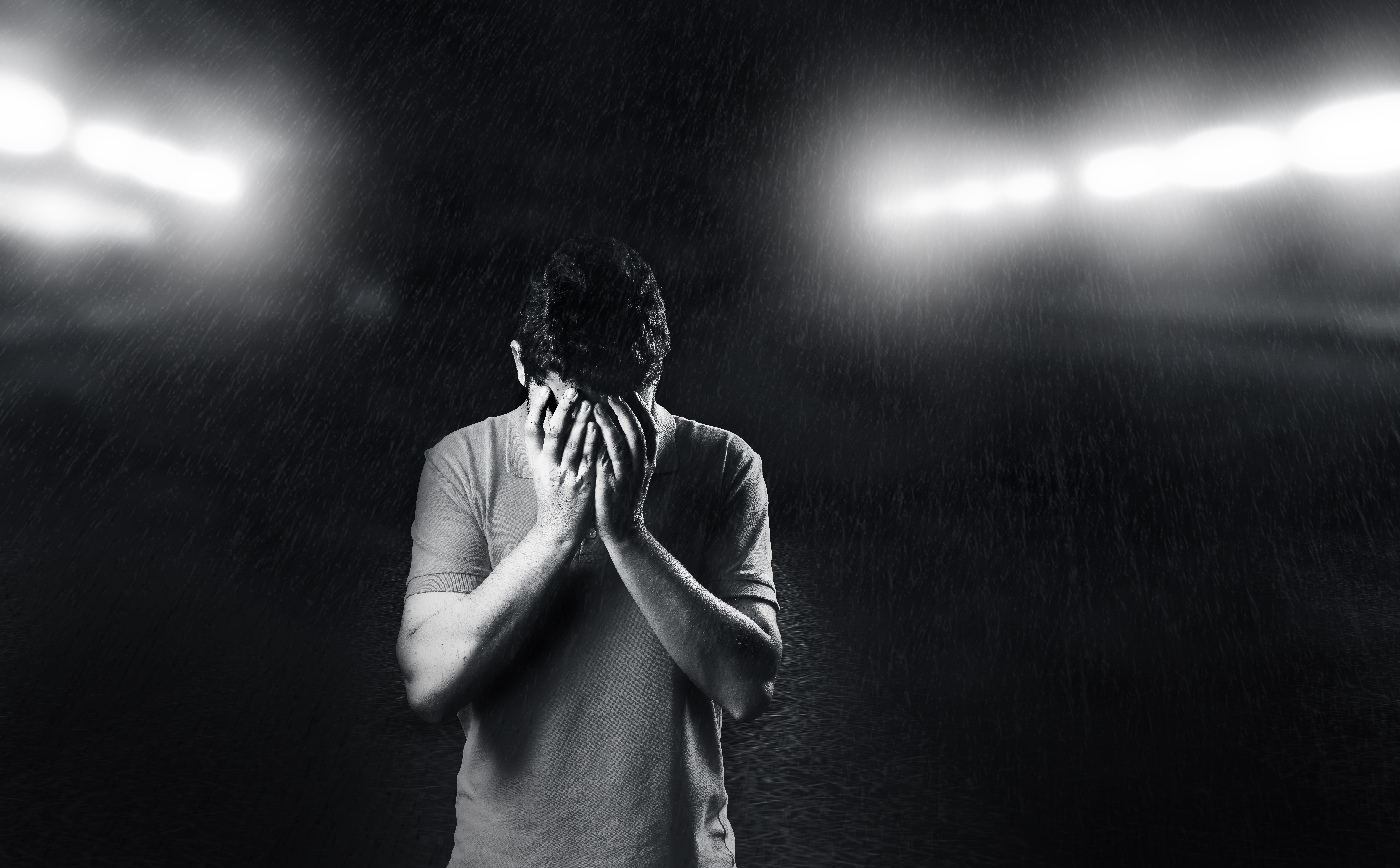 Emotions, Mental Illness, Sad